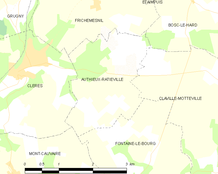 Map of French municipality Authieux-Ratiéville